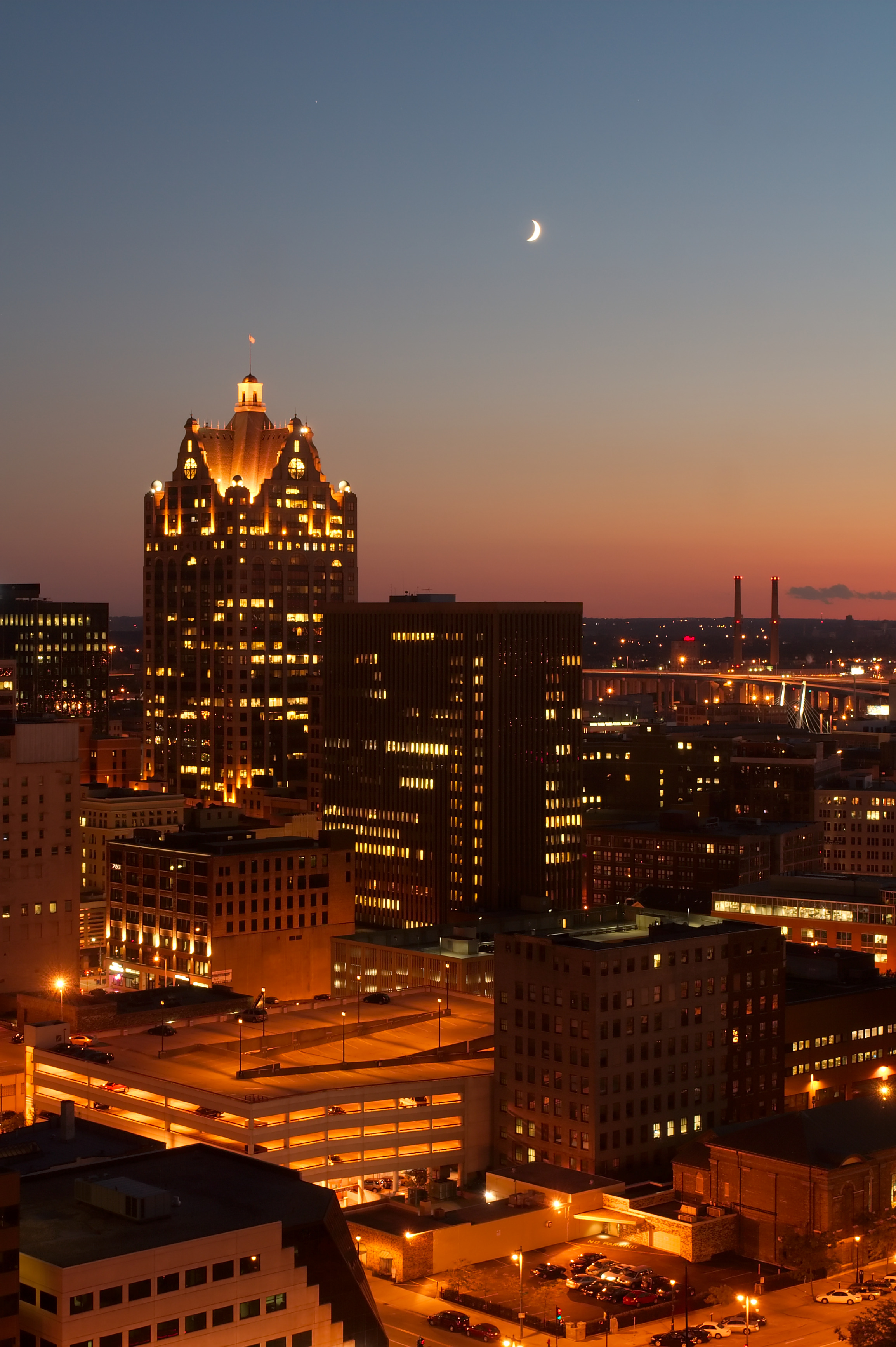 A view of downtown Milwaukee, Wisconsin by night